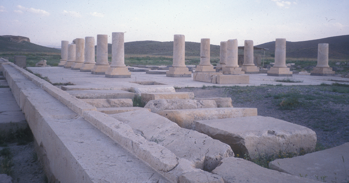 Pasargadae audience. From Image:Pasargad_audience_hall.jpg.